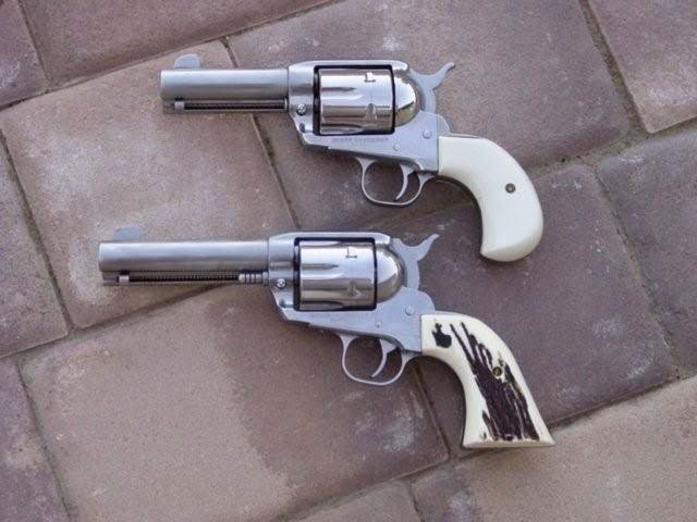 This is a picture of two of my personally owned Ruger Old Model Vaquero Single Action Revolvers